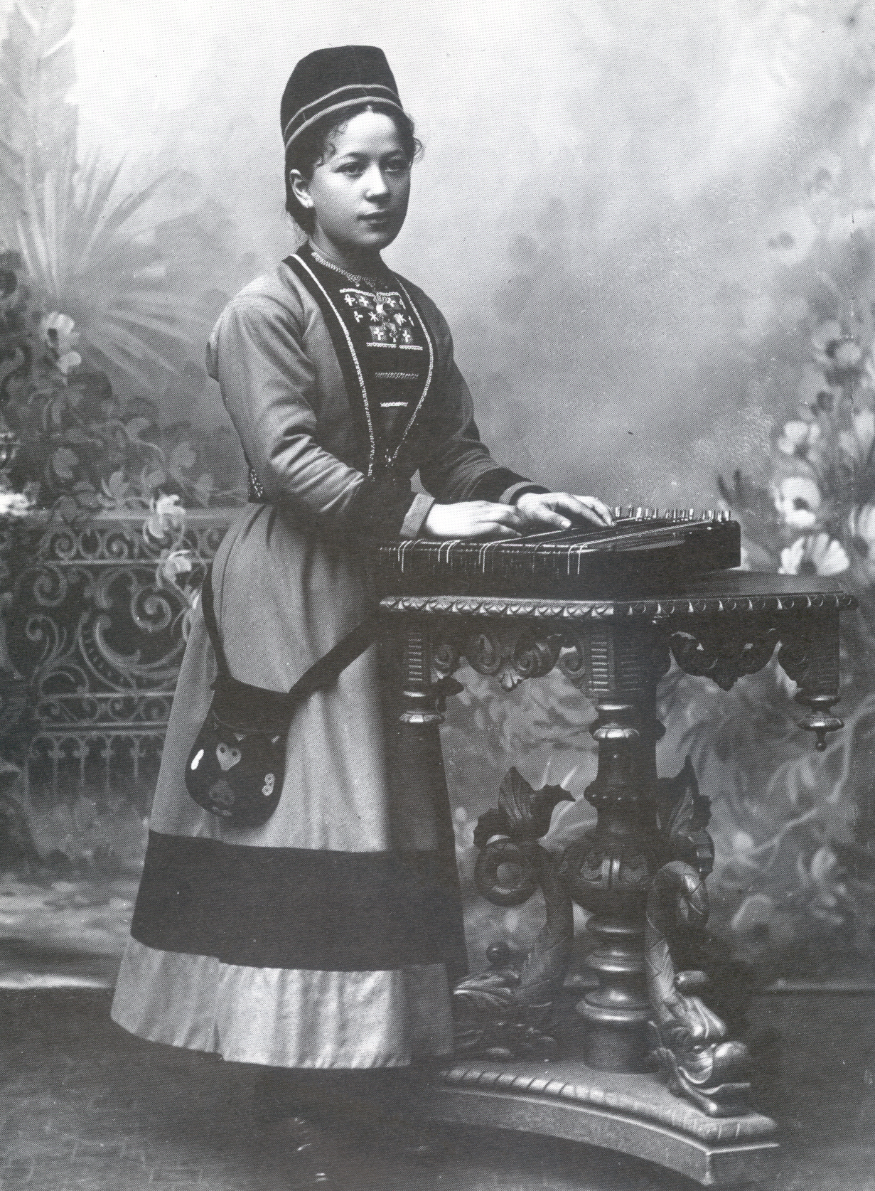 The picture depicts Lisa Thomasson (1878-1932), also known as Lapp-Lisa or The nightingale from Oviken. When she was in her late teens and early 20s, she toured Sweden and sang, accompanying herself on her zither. She ended her career in 1902. The image is a promotion photograph, taken before 1900.